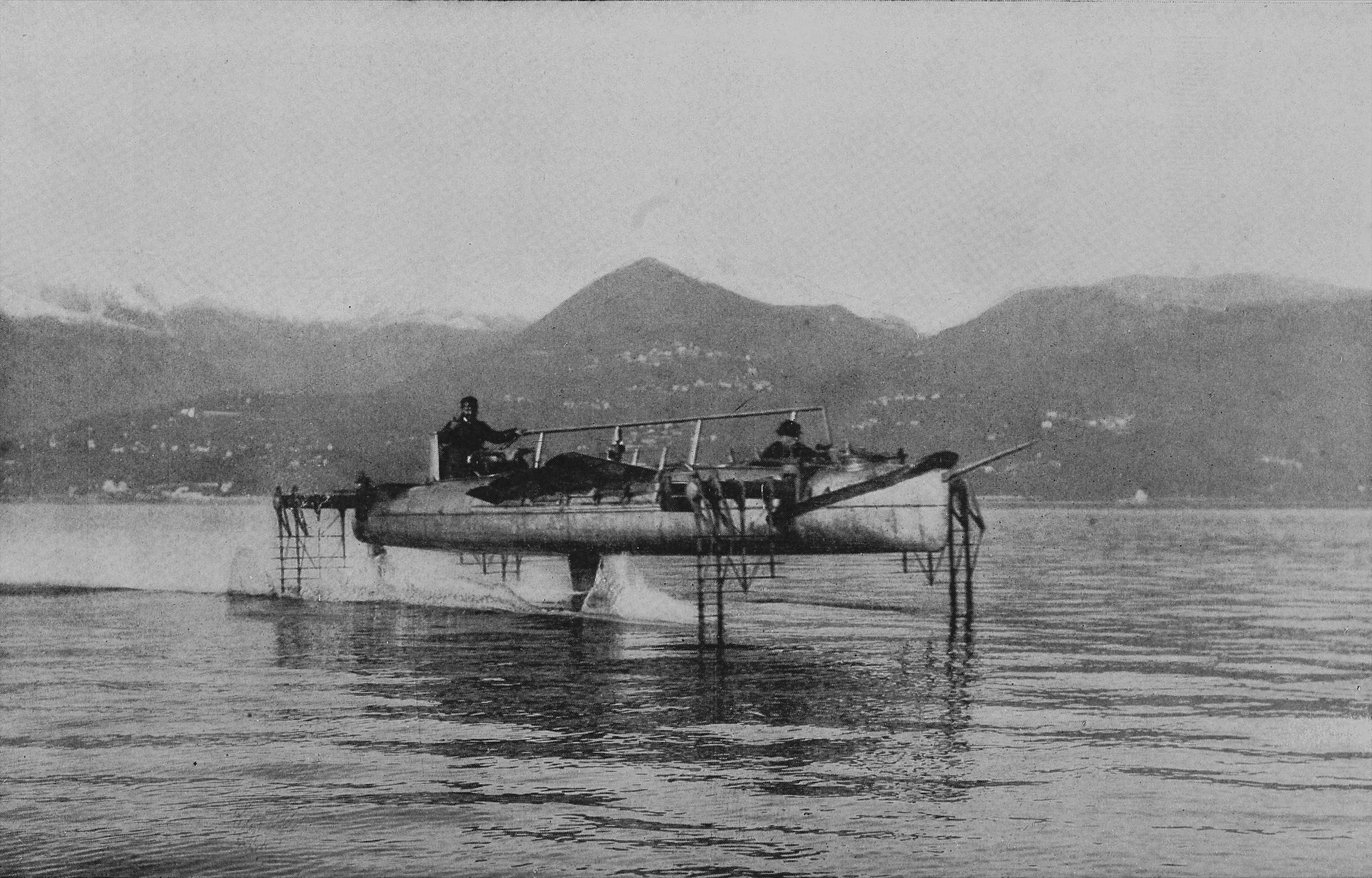 Photograph of Enrico Forlanini's hydrofoil on Lake Maggiore likely in December 1910